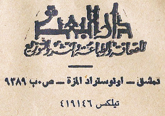 Postmark stamp with Dar Al-Baath Logo from Maison de Presse Impression Publication et distribution, Damas/Damascus (Syrie/Syria), Autostrade El-Mazzeh, P.O.Box 9389